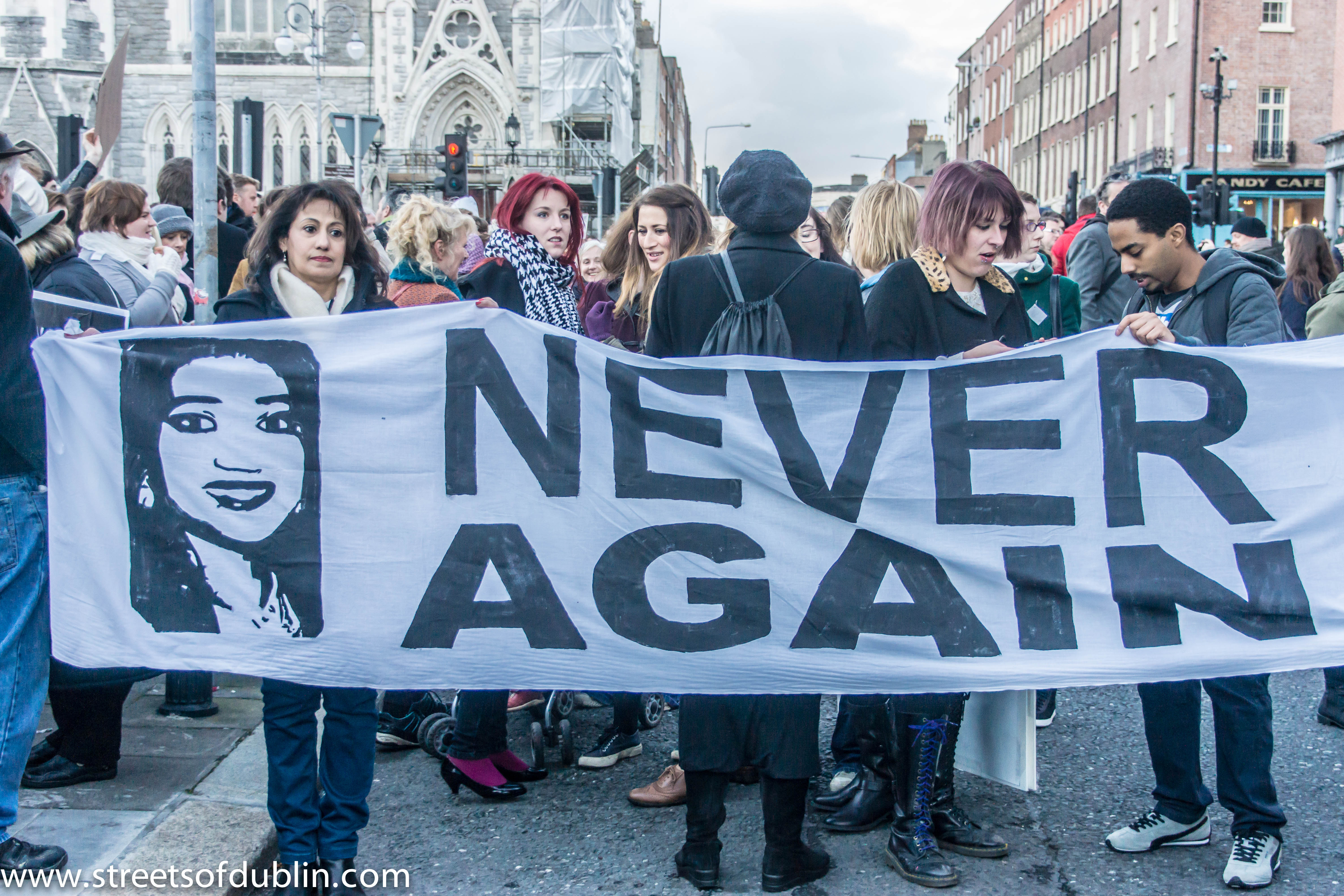 Today a large number of protesters took to the streets of Dublin in response to the unfortunate death of an Indian woman who was refused an abortion. The 31-year-old woman died following a miscarriage at University Hospital Galway. The story behind my photographs has been well reported by international media including CNN, the BBC World Service, Channel 4 News, Sky News, the Sydney Morning Herald, France 24 and New Delhi Television (to mention but a few). Zeenews New Delhi: "The death of an Indian dentist in Ireland, whose life could have been saved through an abortion on Thursday sparked outrage in India with political parties terming it as a violation of human rights while her parents demanded an international probe" Halappanavar's parents demanded an "international probe" and said Irish law on abortion should be changed. "Only following rules, what about humanity? They killed my daughter to save a foetus. Only a mother knows the pain," said Halappanavar's mother, while her father urged the government to act accordingly. There is another protest scheduled for Wednesday in Dublin.